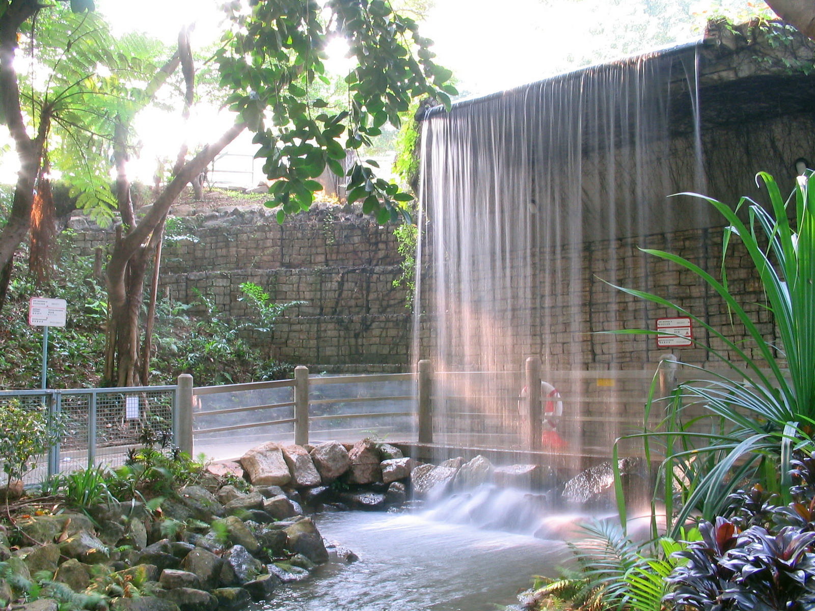 元朗公園-瀑布花園水簾洞 Man-made Cave & Waterfall at Yuen Long Park